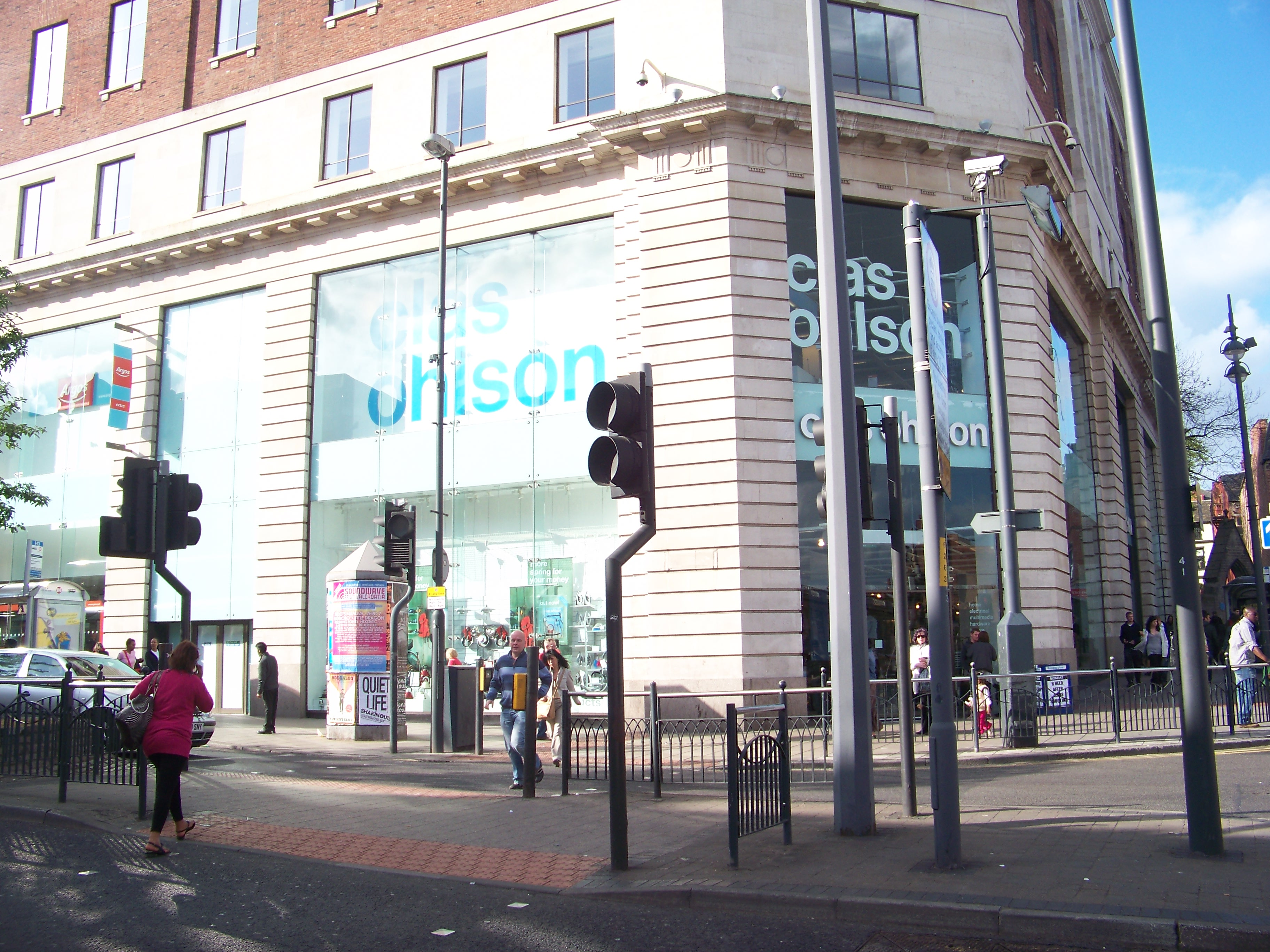 The Headrow, Leeds